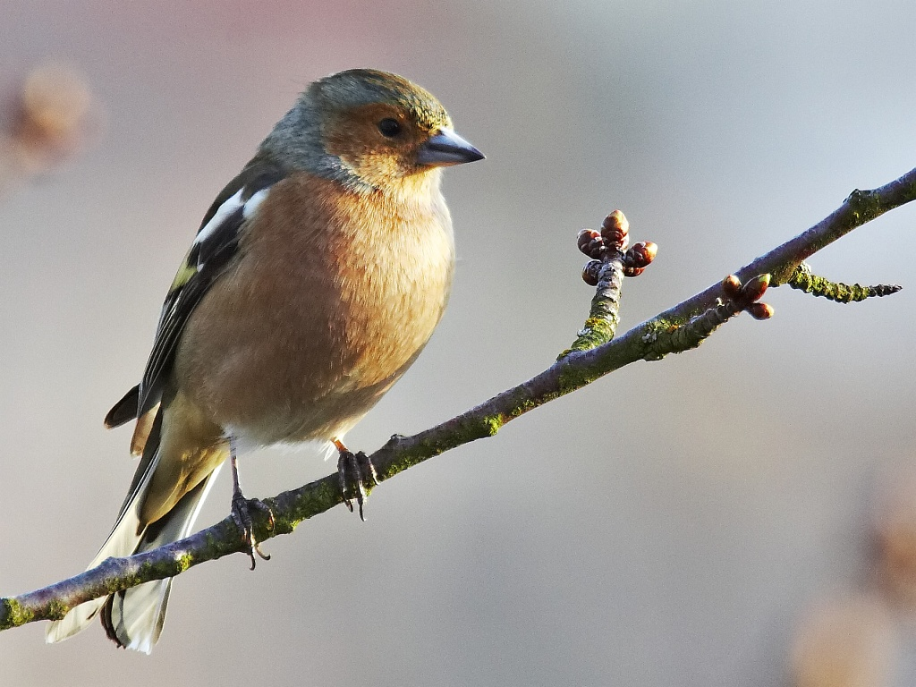 Male chaffinch (Fringilla coelebs).